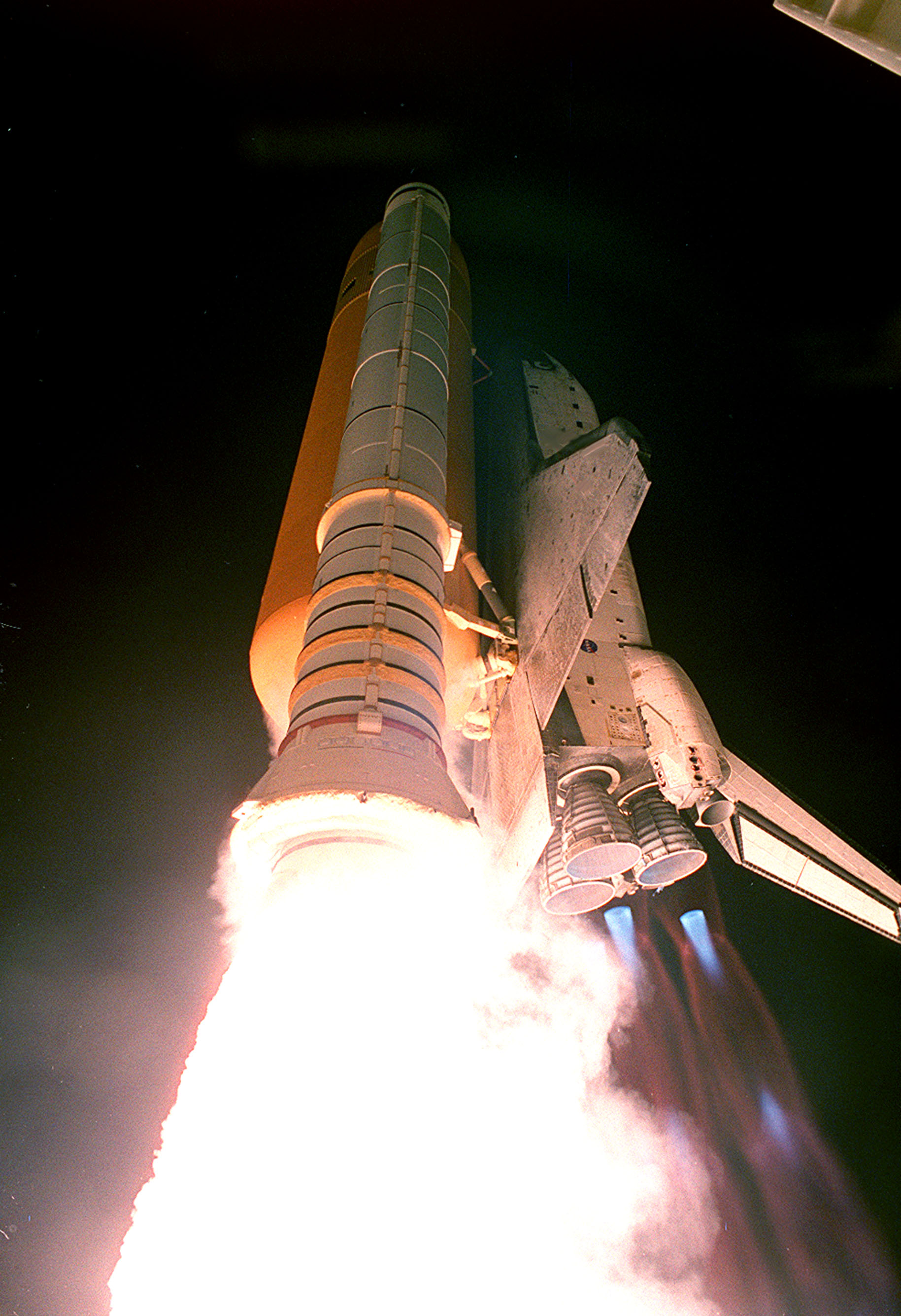 Space Shuttle Discovery roars through the sky trailing fire and blue mach diamonds from the engines. The perfect on-time liftoff at 7:17 p.m. EDT sends a crew of seven on a construction flight to the International Space Station on mission STS-92, the 100th in the history of the Shuttle program. Discovery also carries a payload that includes the Integrated Truss Structure Z-1, first of 10 trusses that will form the backbone of the Space Station, and the third Pressurized Mating Adapter that will provide a Shuttle docking port for solar array installation on the sixth Station flight and Lab installation on the seventh Station flight. Discovery's landing is expected Oct. 22 at 2:10 p.m. EDT.